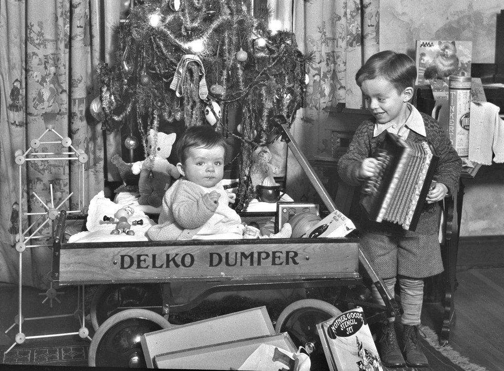 Christmas Day 1928. "Christmas at our home north of Worthington, Ohio, Photo lighting was flash powder. "